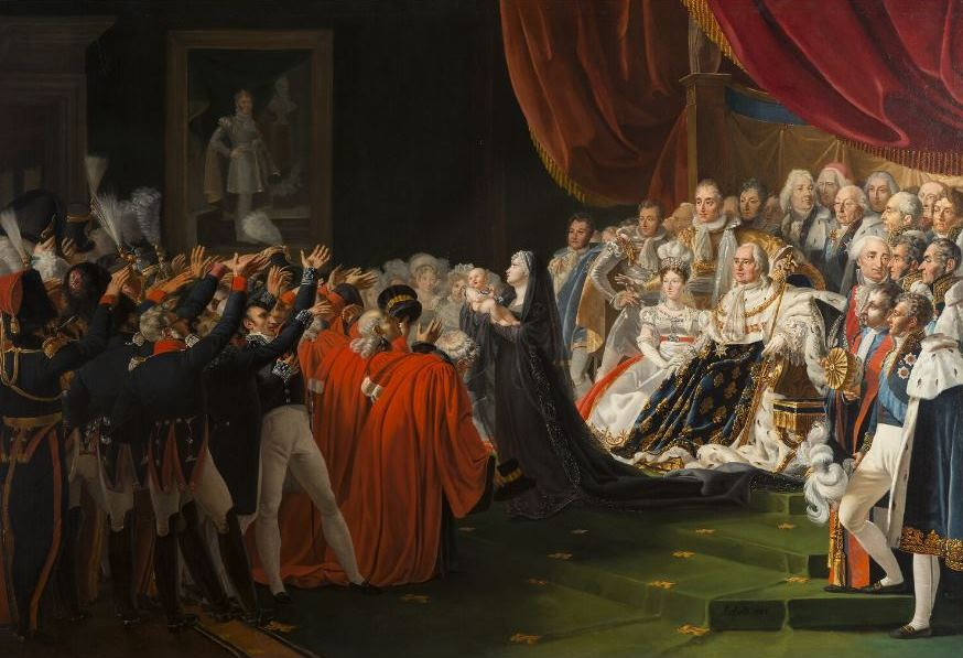 The dowager duchess de Berry presents her son Henri, duc of Bordeaux, to the French court and royal family